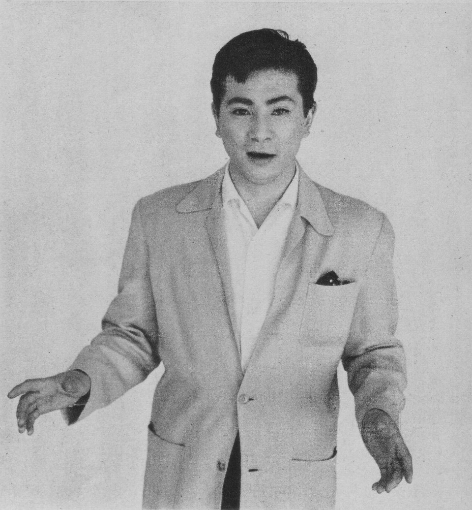 Shintarō Katsu. taken in 1956.